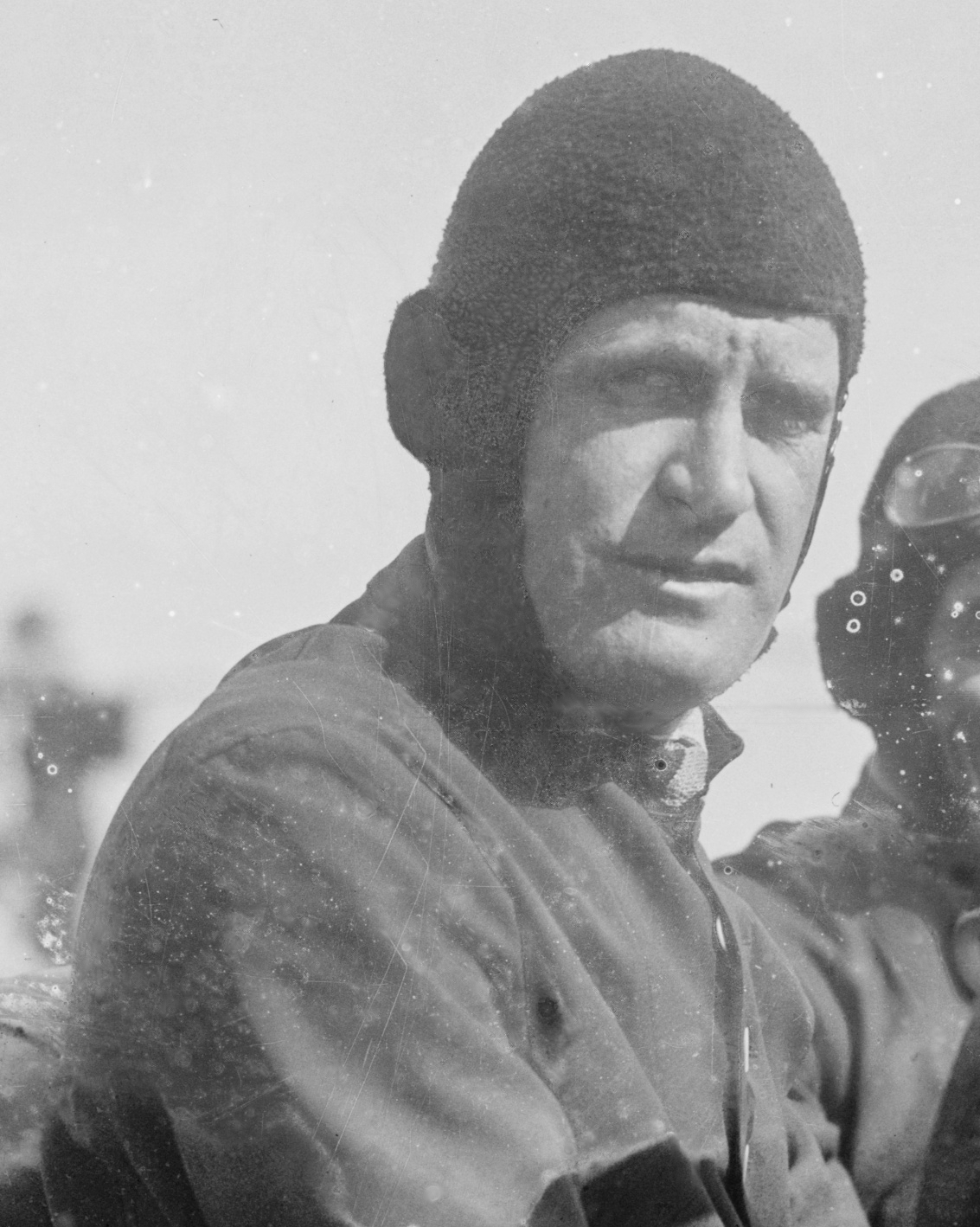 Johnny Aitken (American racecar driver) in a Peugeot in 1910s